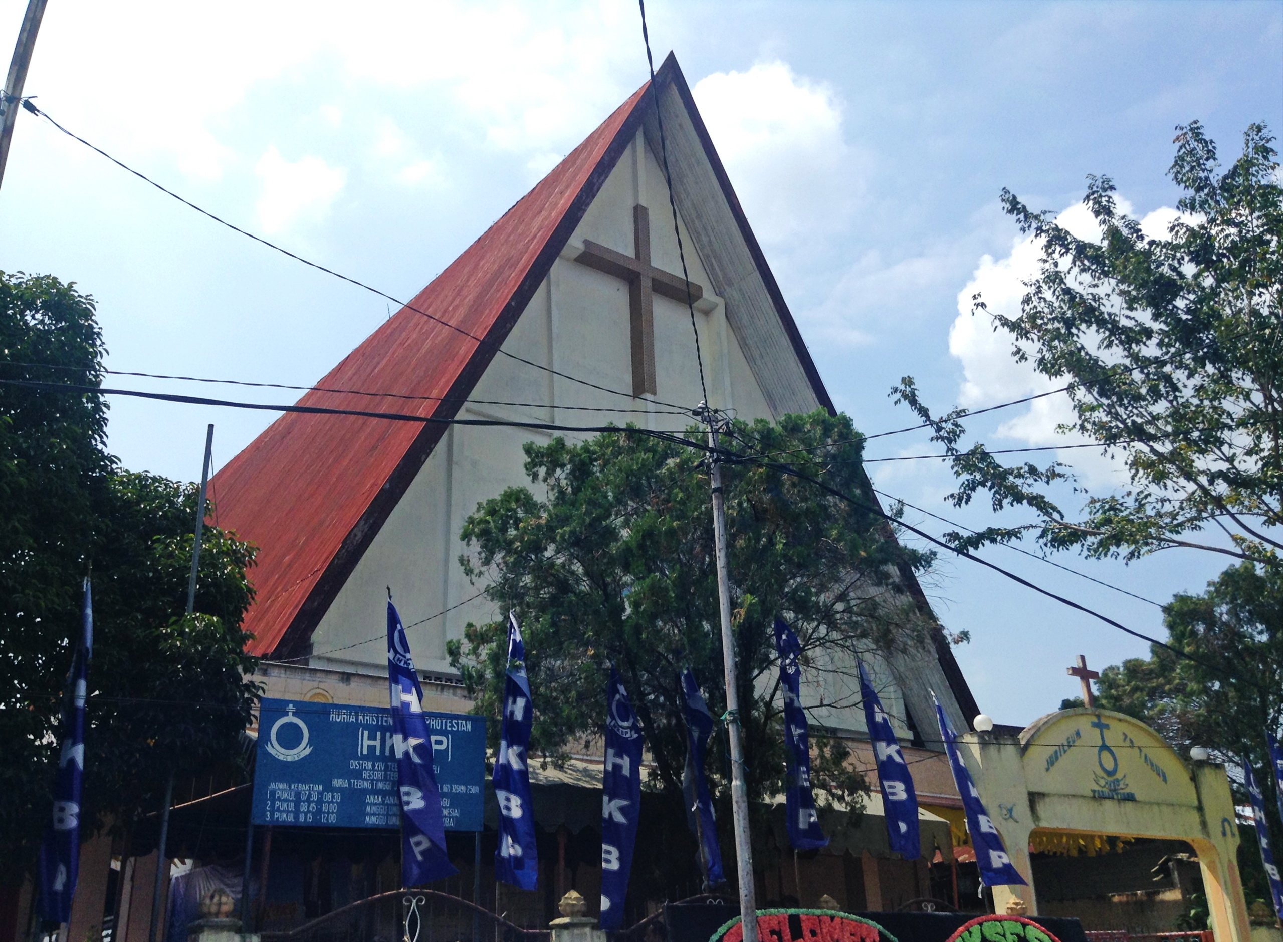 HKBP Tebing Tinggi, Church in Tebing Tinggi Lama, Tebing Tinggi Kota, Tebing Tinggi, North Sumatra